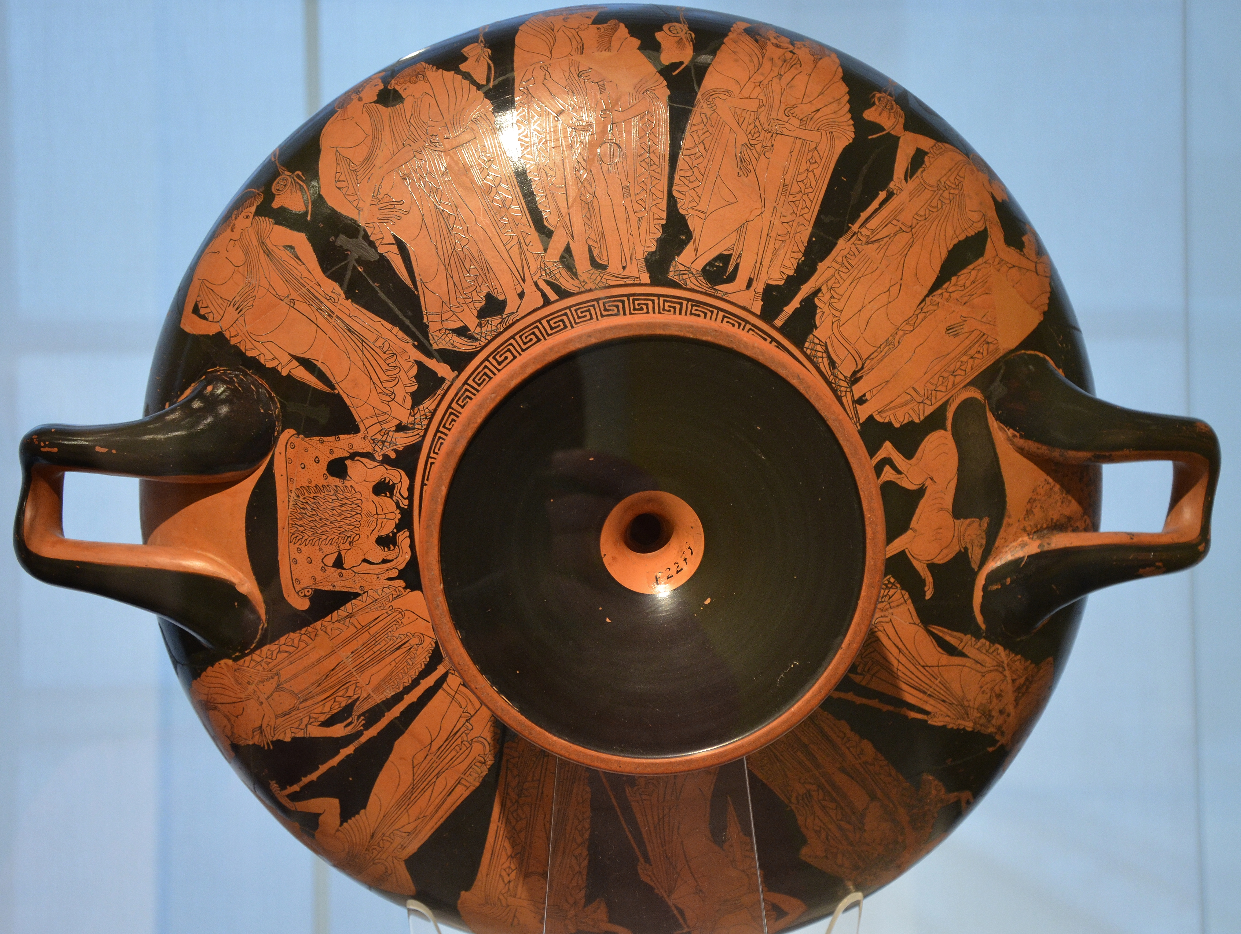 The outside of this drinking cup depicts scenes of courting couples, both homosexual and heterosexual. In the ancient world amorous relationships between men and boys were allowed, although governed by strict social conventions. Sporting equipment in the background hints to the palestra and the attractiveness of a fit, youthful body.